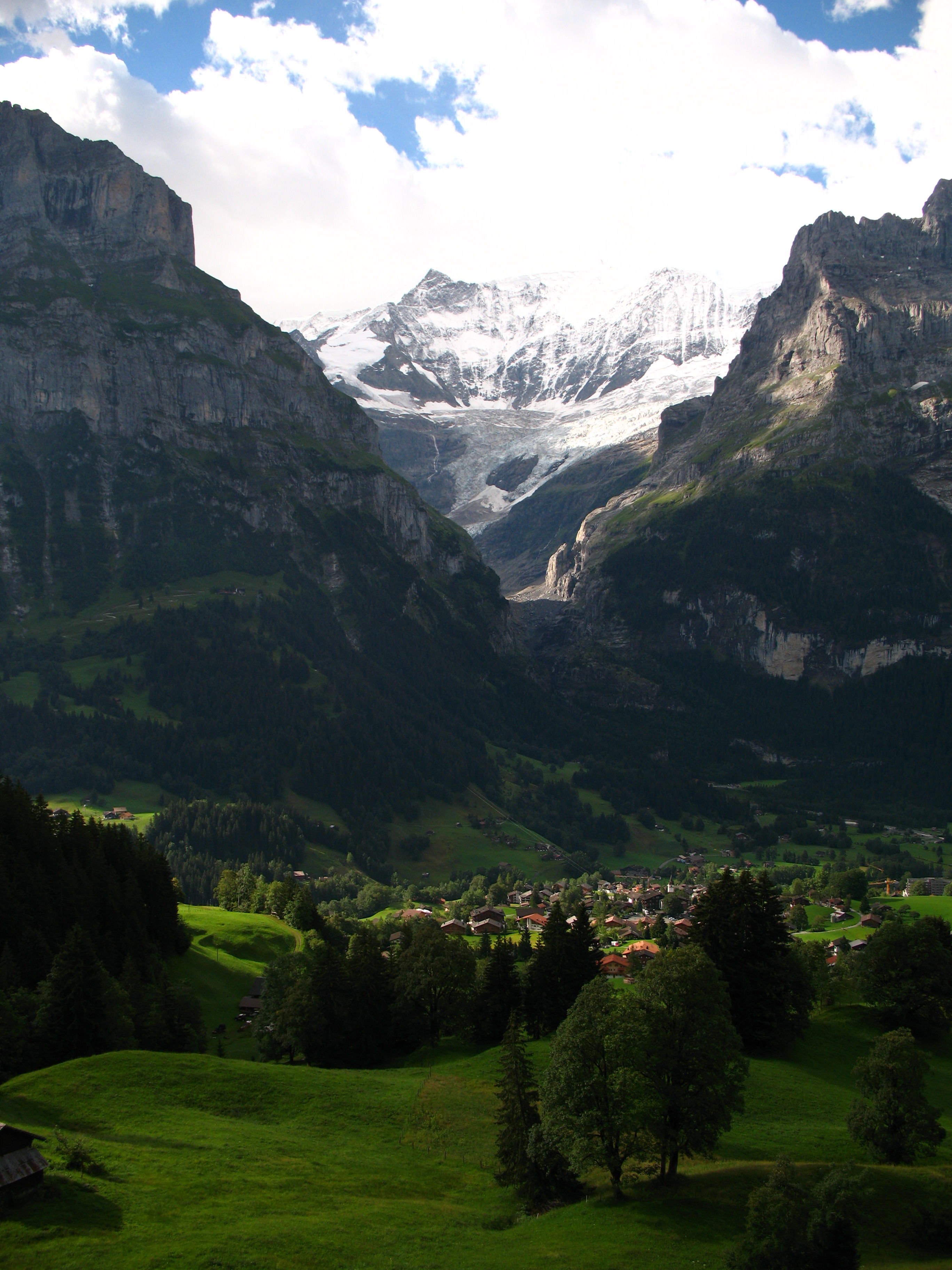 Mettenberg and the Lower Grindelwald Glacier viewed from the First gondola lift, Grindelwald, Switzerland